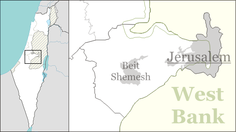 Labelled map for pushpin maps of the Jerusalem District of Israel.